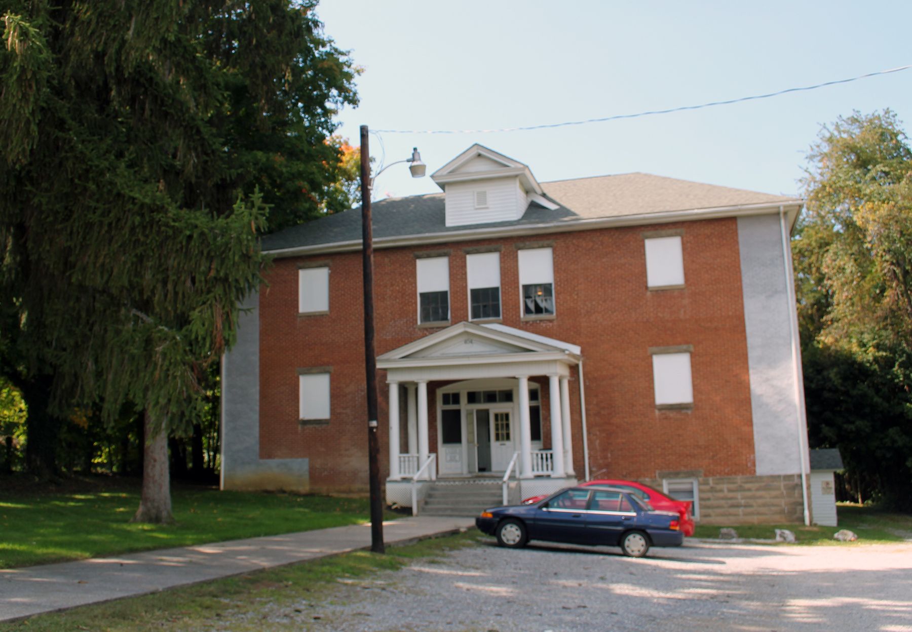 404 E Main Street, Christiansburg VA 24073 This is the Old School which was converted into apartments.